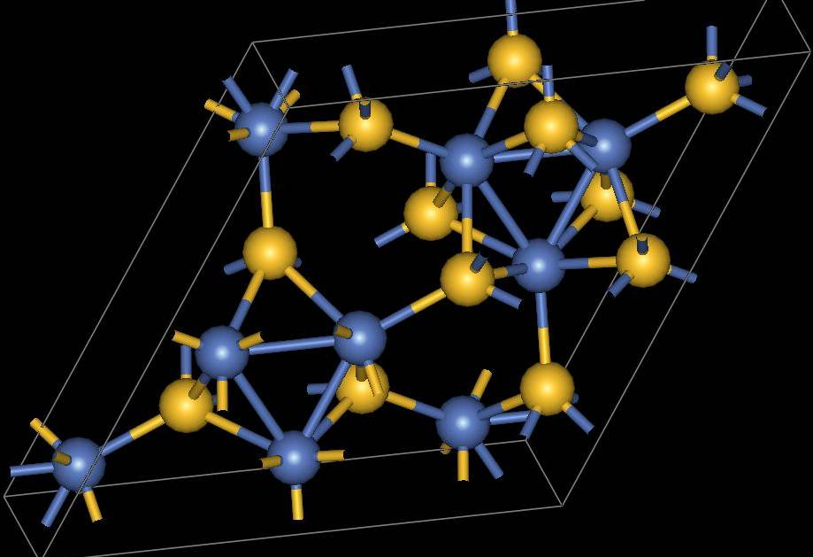 NiS (millerite) structure; sulfur atoms are yellow Journal = AMERICAN MINERALOGIST Year = 1973 Volume = 58 Page = 1108- Title = Interatomic Distances in Sulfides: the Structure of Millerite (a-NiS) Authors = Rajamani V., Prewitt C.T.